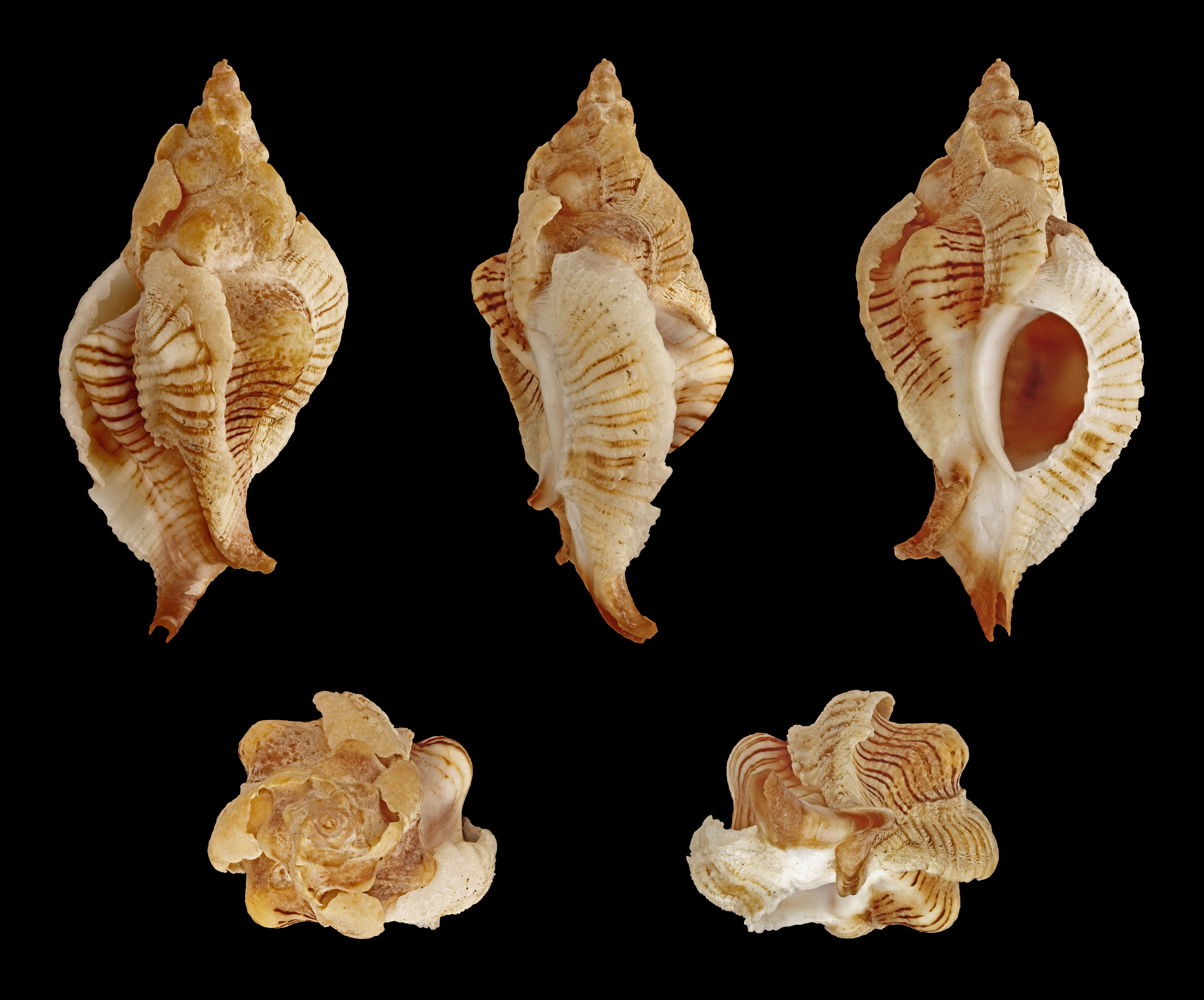 Festive Murex; Length 5.0 cm; Originating from Balboa Island, New Port, California, USA; Shell of own collection, therefore not geocoded. Dorsal, lateral (right side), ventral, back, and front view.